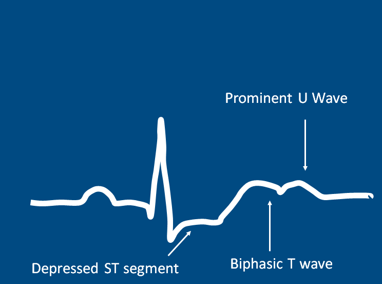 ECG Pattern Of Hypokalemia